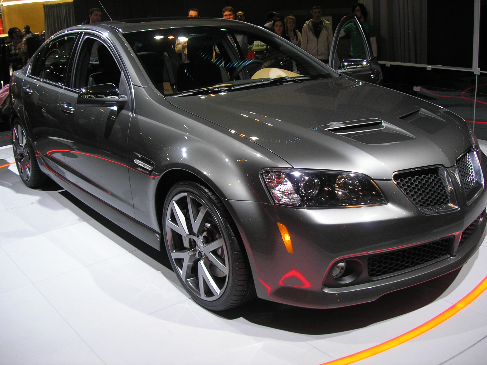 The Pontiac G8 Concept car at the Chicago Auto Show, 2007, held in the McCormick Place convention center.